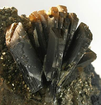 Pyrite, Valentinite Locality: San José Mine, Oruro City, Cercado Province, Oruro Department, Bolivia (Locality at ) Size: miniature, 3.9 x 2.8 x 1.5 cm VALENTINITE on pyrite This specimen is stunning for the species, with unusually distinct, well-formed crystals to 1.5 cm arrayed in an (also unusual) radial cluster on minimal matrix. Usually these are blocky crystals on massive rock, not so displayable. This fine piece, though, is one of the more display-worthy examples of the species I have seen. The leftmost crystal was loose, wiggling, and then came off in handling so is now repaired (as a lock-fit repair perfectly to its original site). The crystals are textbook-sharp in form, and have (as you can see in the photos) translucent golden-colored terminations.